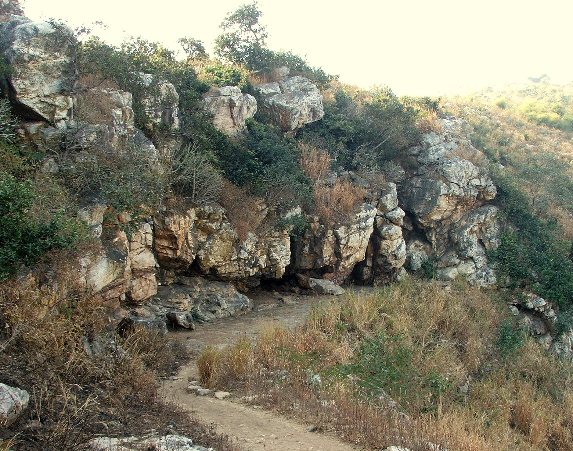 The Sattapanni or Sattaparni Cave, on one of the hills around Rajgir, Bihar, India. It is where the First Buddhist Council took place, in the year after the Buddha's passsing away (Parinirvana).